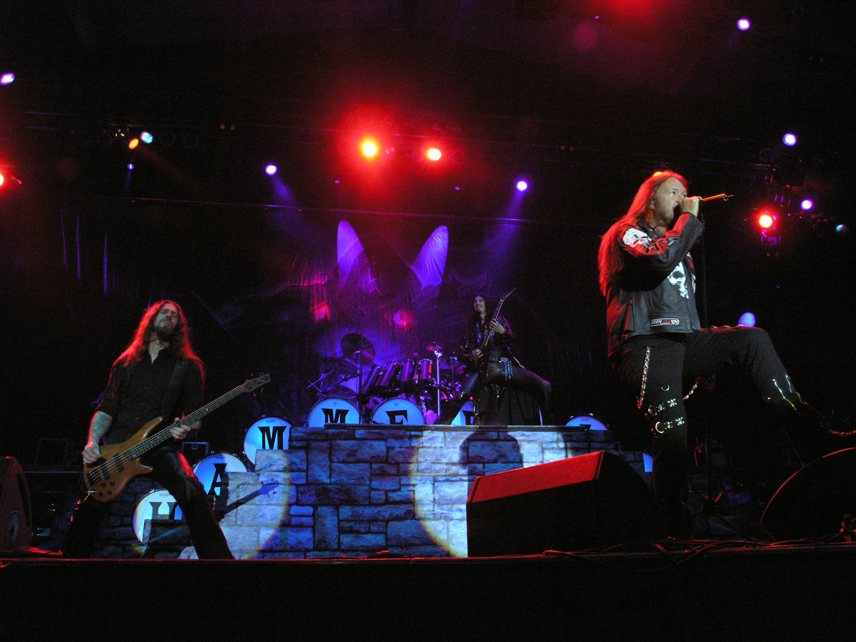 Music band Hammerfall during Masters of Rock 2007 festival